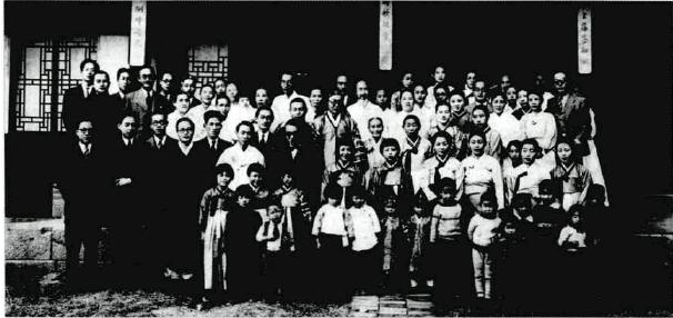 61st Birthday was Lee Beom-suk, was Yun Bo-seon(4th President of South Korea)s mother. wife of Yun Chi-so. Chi-so was Yun Chi-ho's cousin.